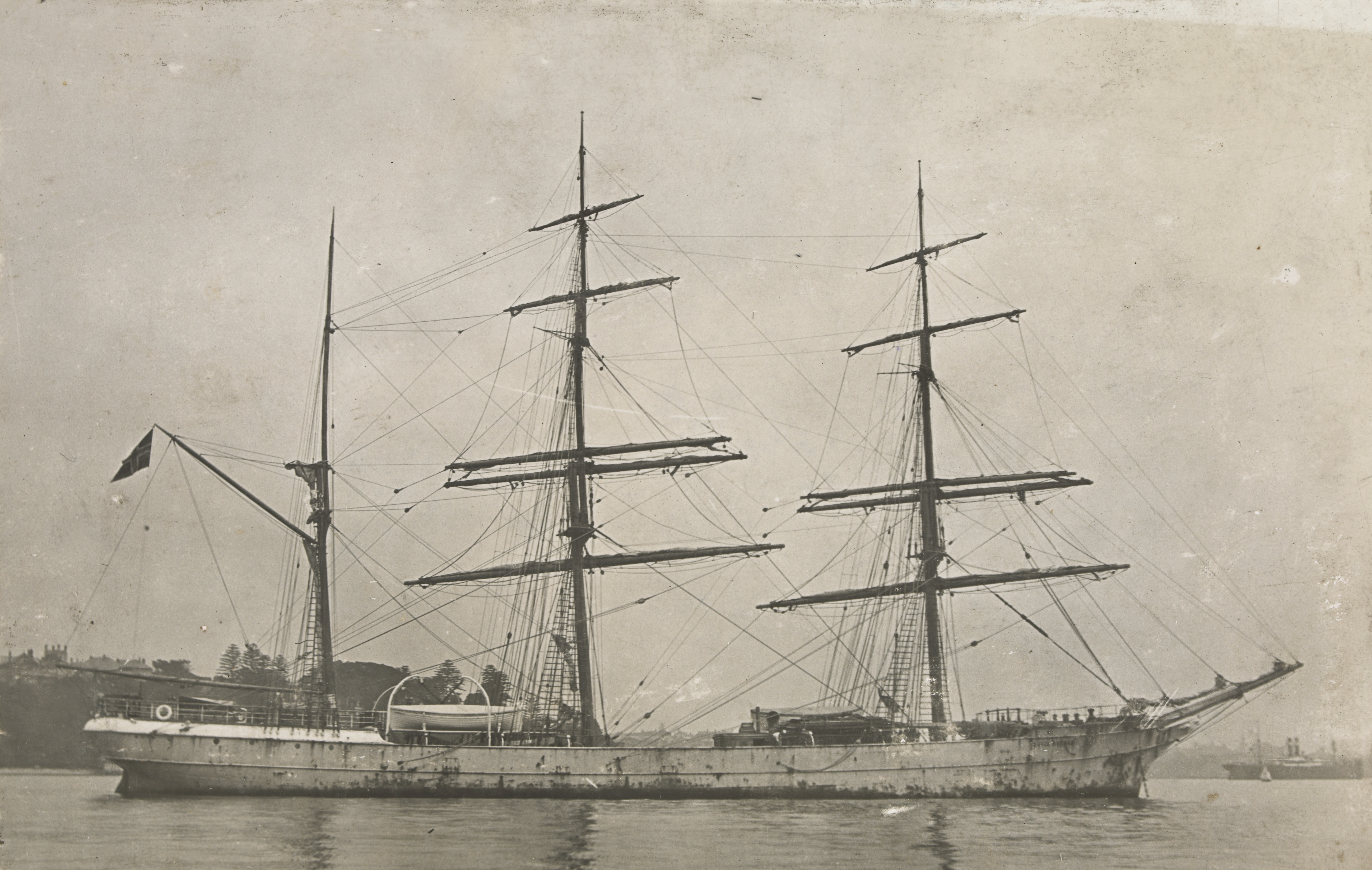 The Barque Adolph Harboe; Adolph Harboe was not on the Danish shipping register in 1889, although by 1891 she was. Last noted on Danish register in 1903, but did not appear on 1905 register. To view the registers see this Danish language website.